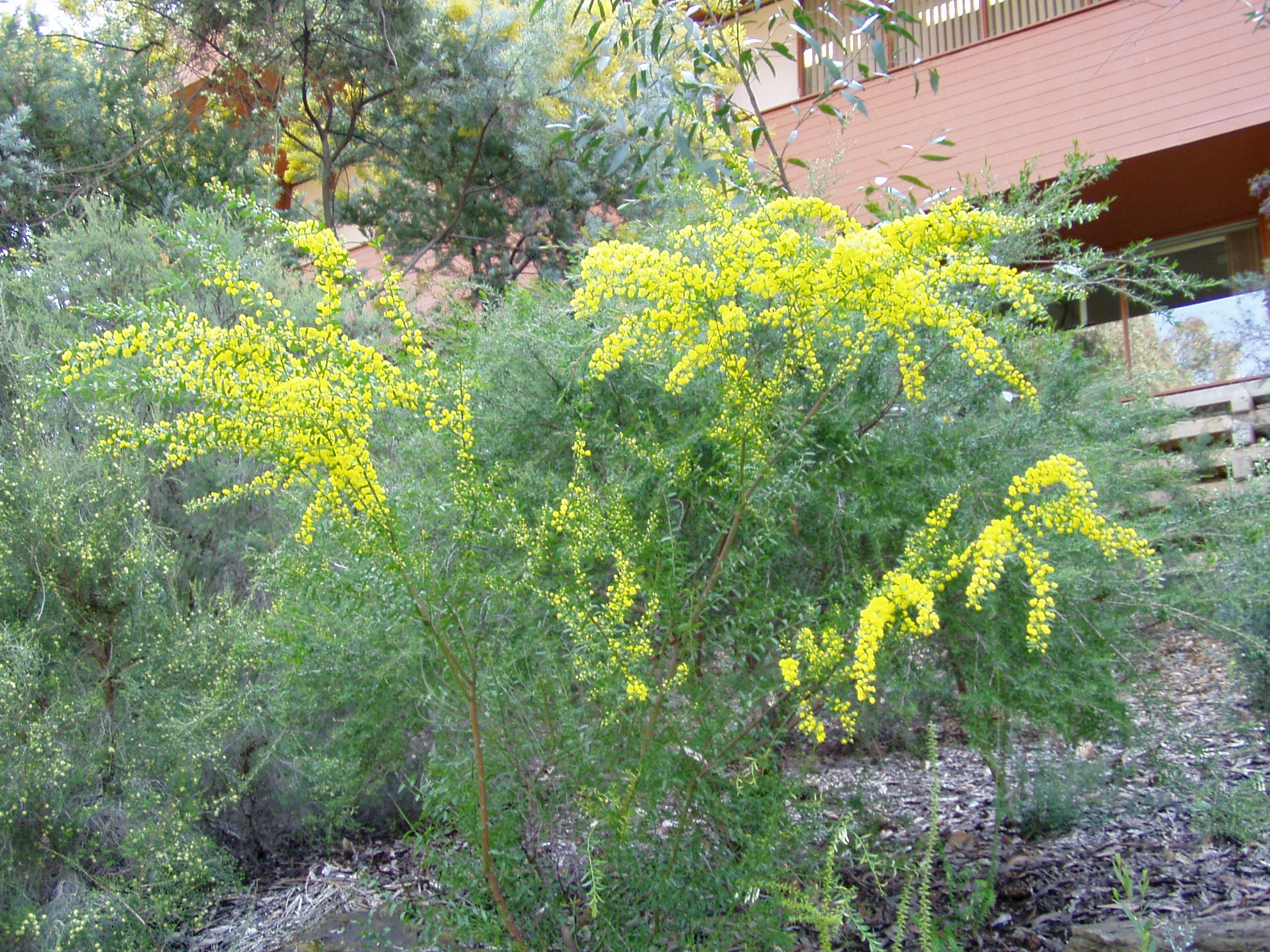 Description: Gold Dust Wattle (Acacia acinacea Lindl. 1838) Location: Australian National Botanic Gardens, Canberra, Australian Capital Territory, Australia Date: 2005-09-21 Source: picture taken by Danielle Langlois Licence: Released under GFDL and Creative Commons licenses by the photographer